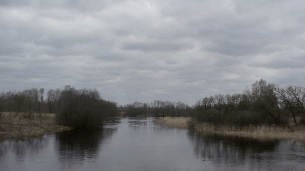 Obol